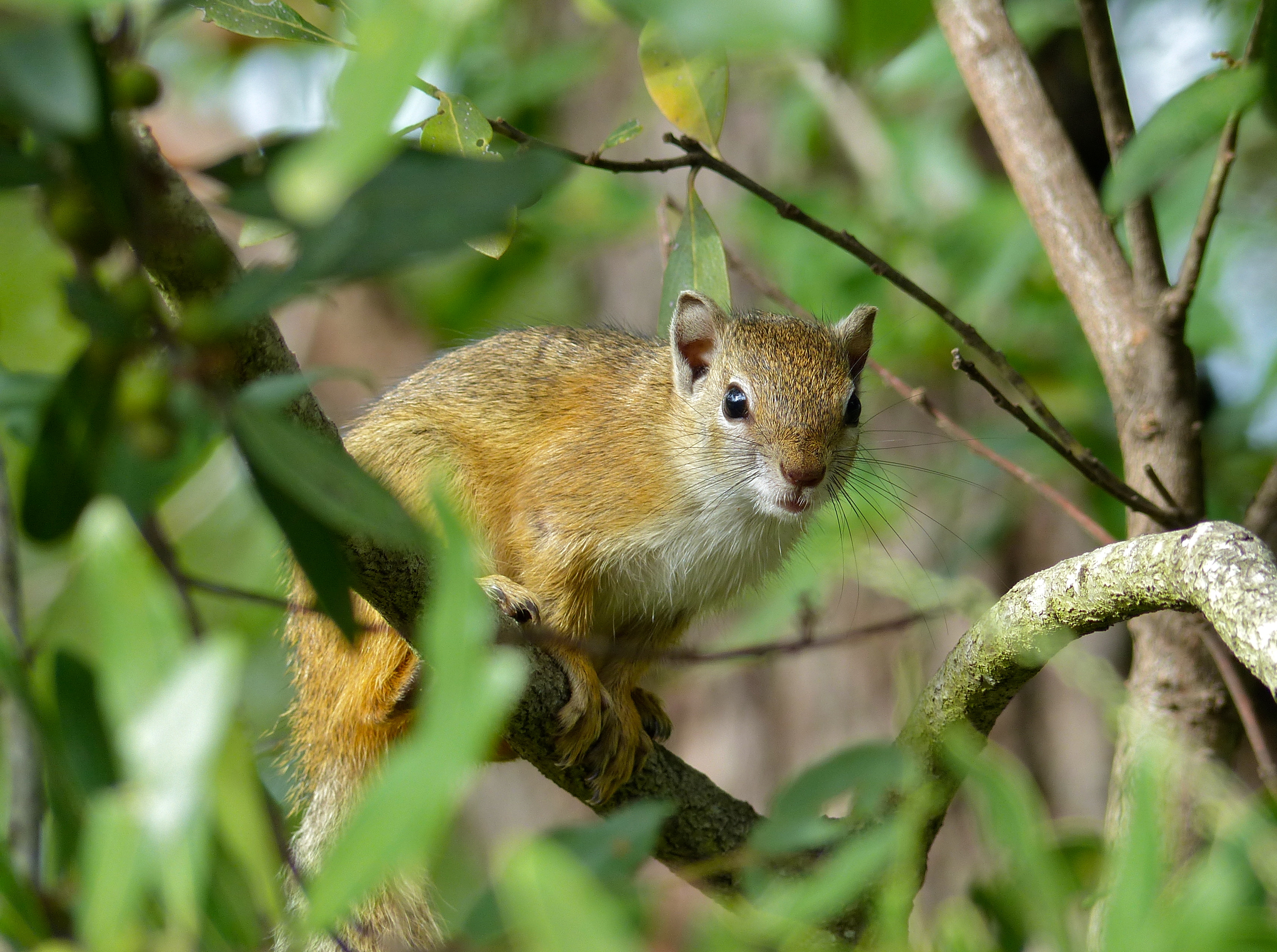 S125 Road South of Satara, Kruger NP, SOUTH AFRICA